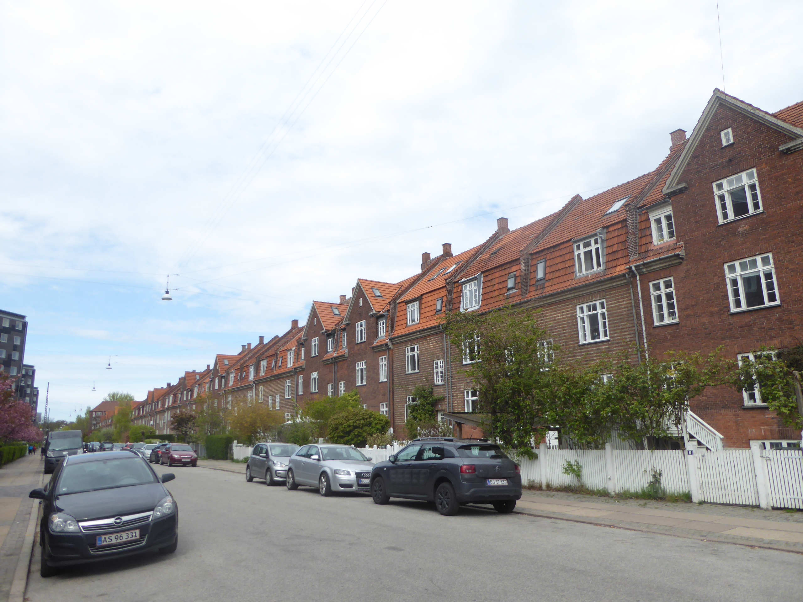 Apartment buildings at Studsgaardsgade in Østerbro in Copenhagen.